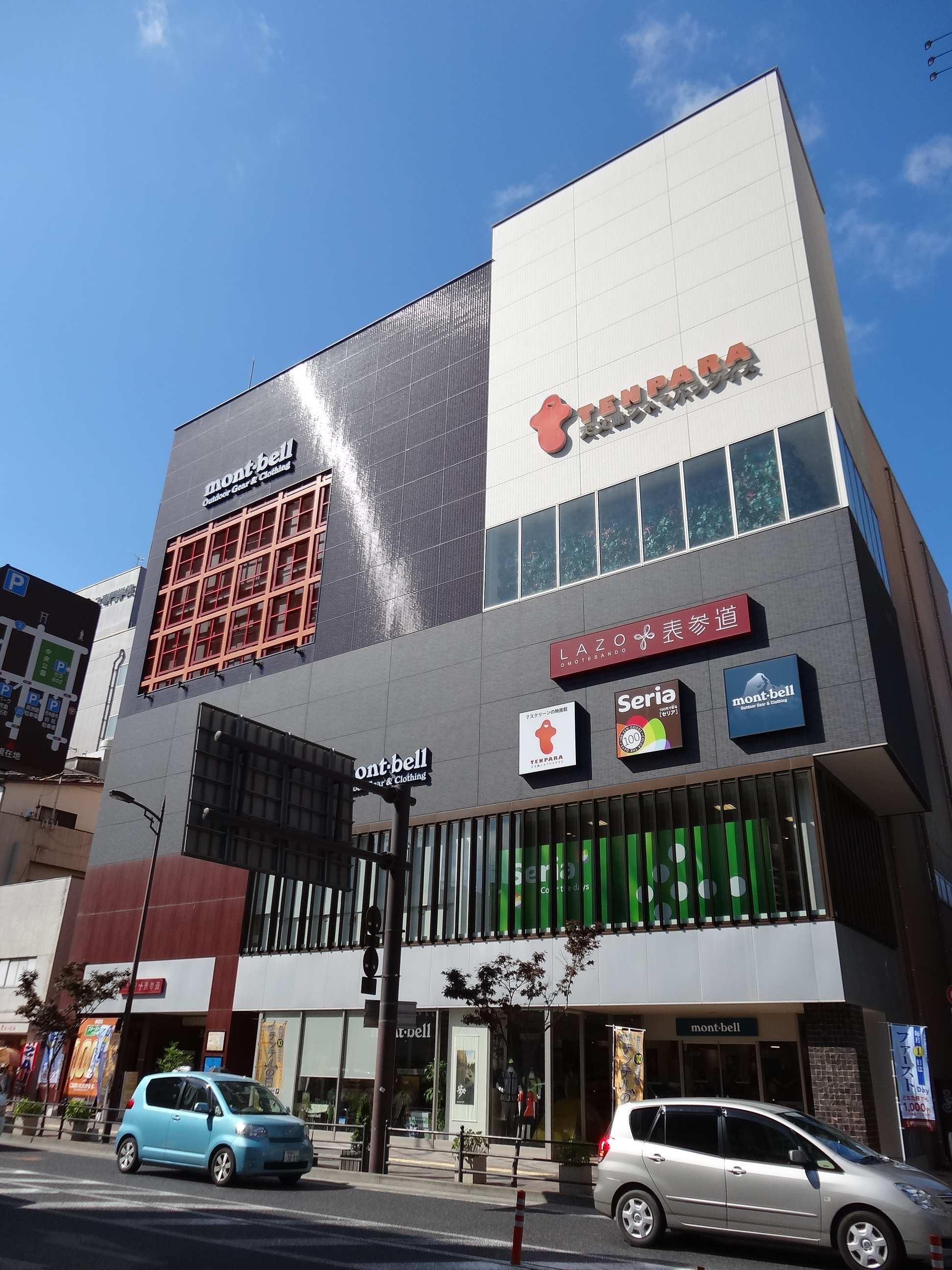 Tenmonkan Cinema Paradise (Central Kagoshima City, Japan)